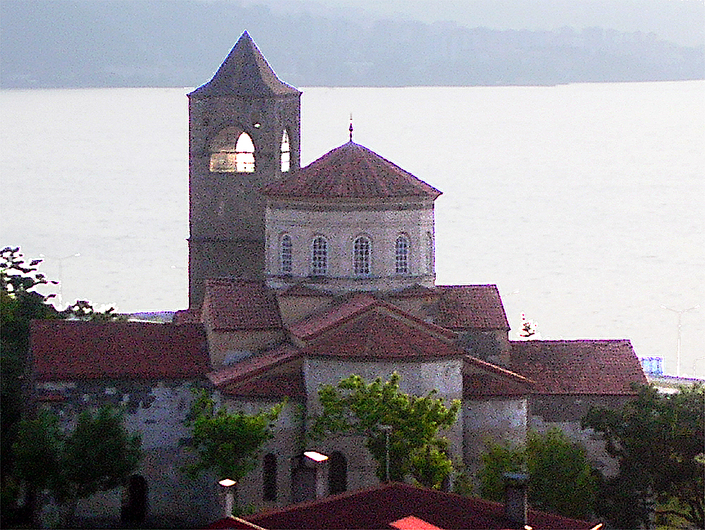 The Aya Sofia Museum in Trabzon, Turkey.